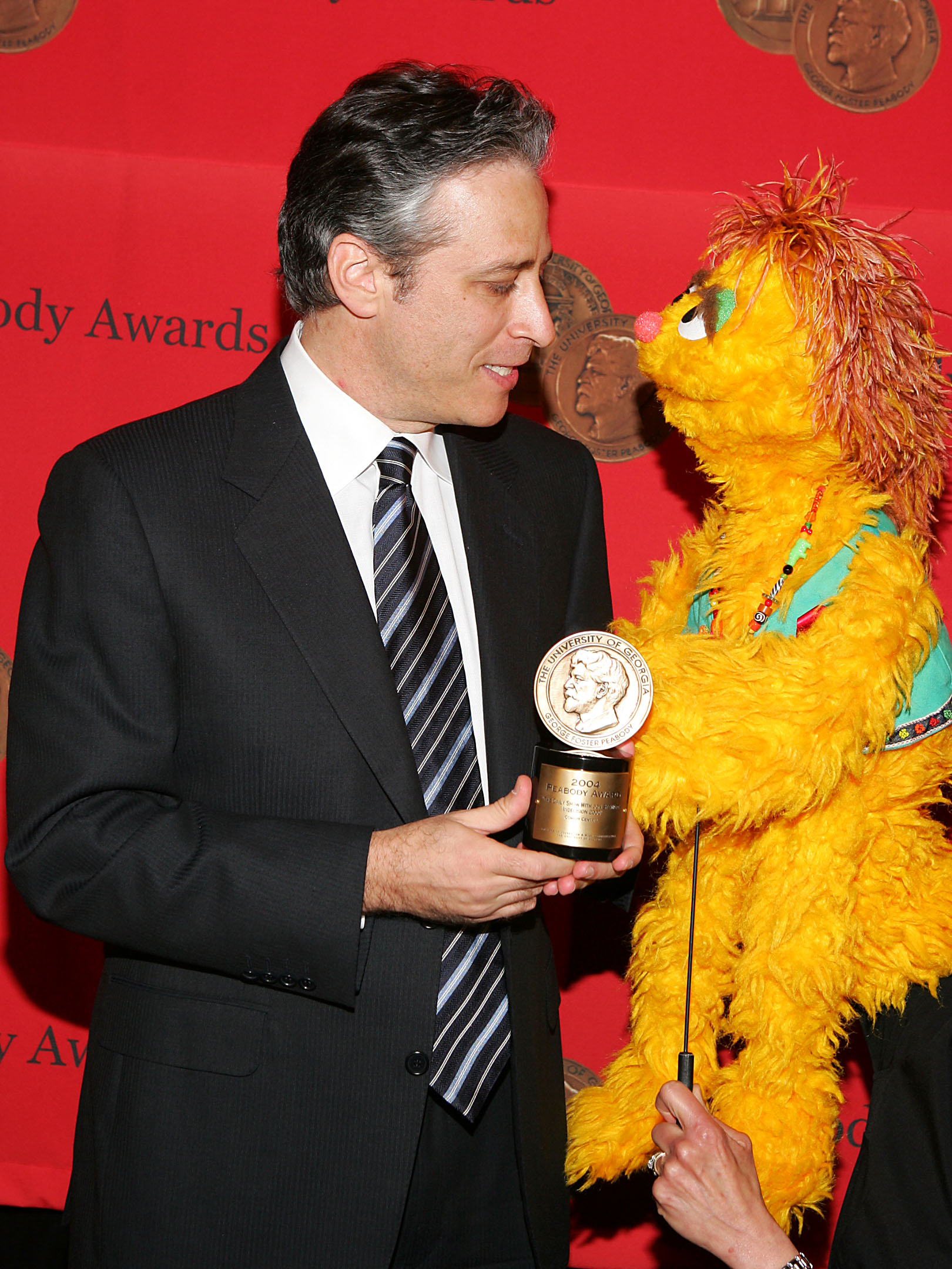 64th Annual Peabody Awards Luncheon Waldorf=Astoria Hotel New York, NY USA May 16, 2005